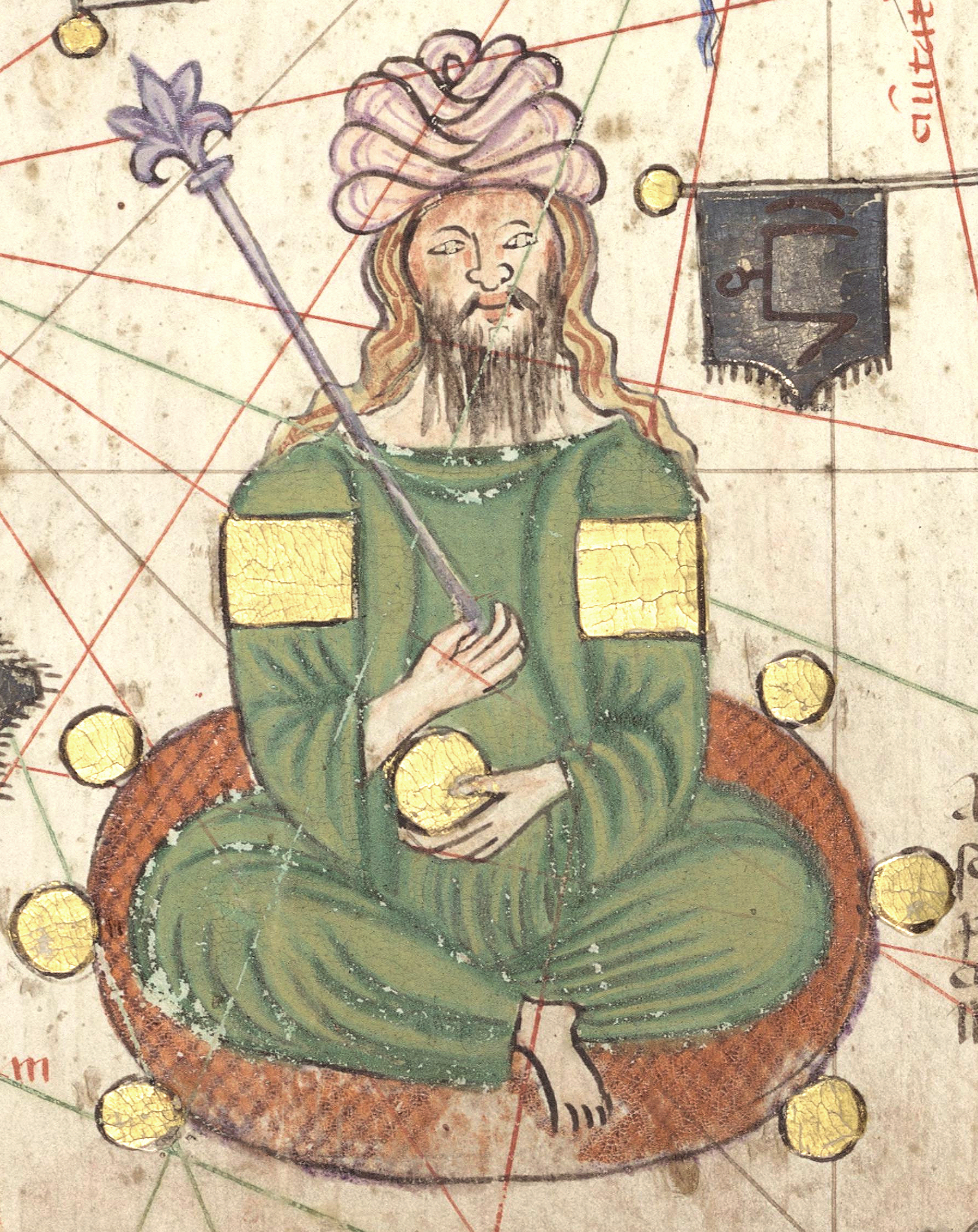 Image of Jani Beg, Khan of Golden Horde. Catalan Atlas reproduction.